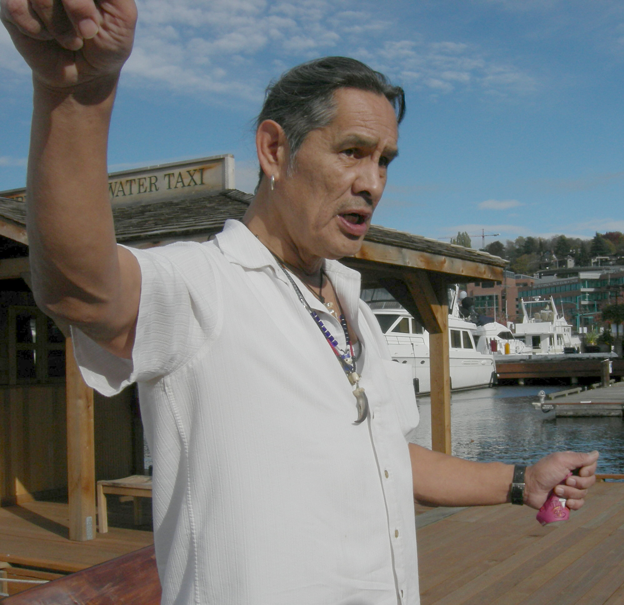 Haida carver Saaduuts at Center for Wooden Boats, Seattle, Washington, USA.